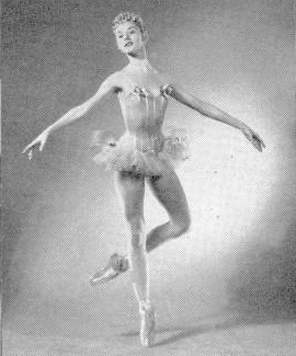 Tanquil LeClercq as Dewdrop of the Candy Flowers in the New York City Ballet's 1954 production of The Nutcracker